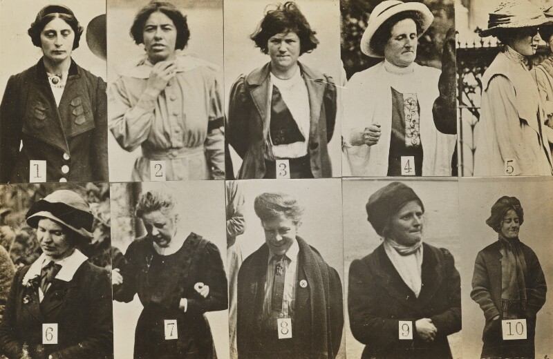 An image created by the United Kingdom's Criminal Record Office and then made available at the UKs National Portrait Gallery. These date from c.1914 when the suffragettes had an arson campaign before WW1. 1 Margaret Scott (Margaret Gertrude Schencke), 2 Olive Leared (née Hockin), 3. Margaret McFarlane, 4.Mary Wyan (Mary Ellen Taylor), 5. Annie Bell 6. Jane Short, 7.Gertrude Ansell 8.Maud Brindley, 9.Verity Oates, 10.Evelyn Manesta